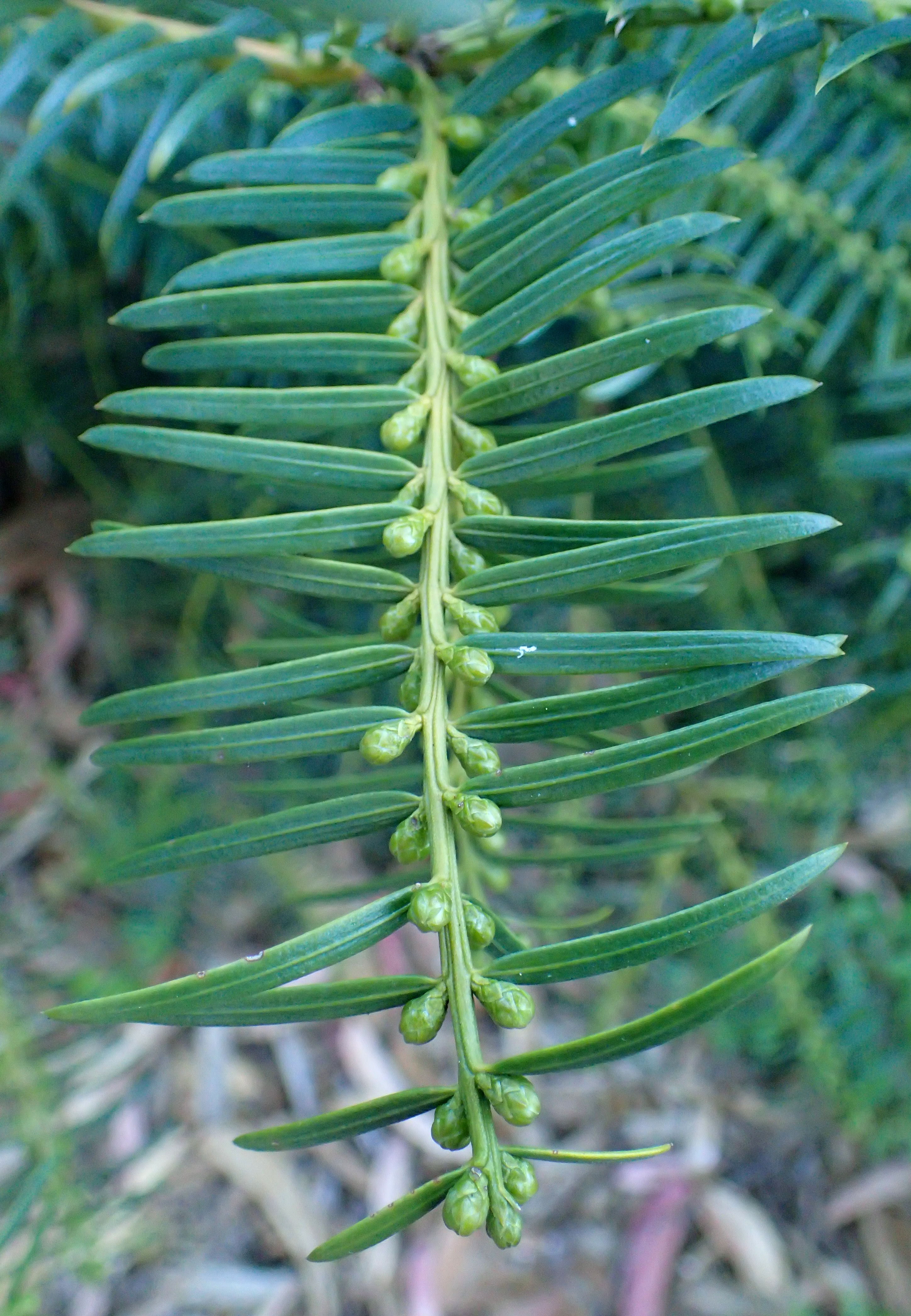 Cephalotaxus mannii in the San Francisco Botanical Garden